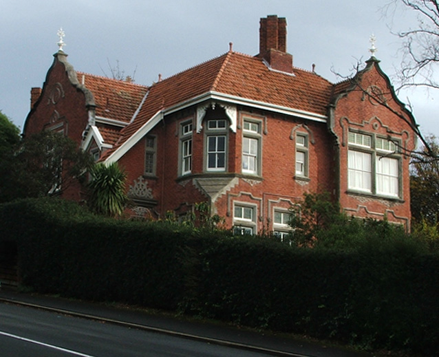 A townhouse in High Street, Dunedin, New Zealand.